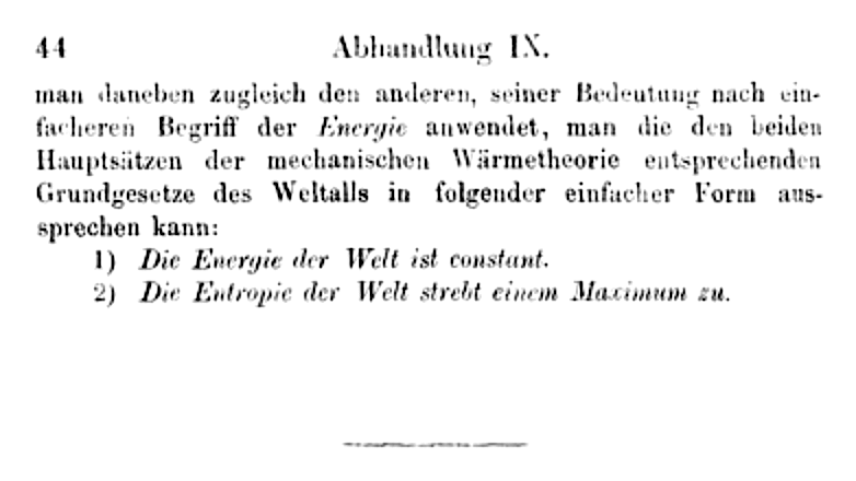 A quotation by Rudolf Clausius: «The energy of the world is constant. Its entropy tends to a maximum» (S. 400 in Annalen der Physik und Chemie, 1865, Bd. 125, № 7, S. 353—400; S. 44 in Rudolf Clausius. Abhandlungen über die mechanische Wärmetheorie. Zweite Abtheilung. — Braunschweig: Friedrich Vieweg und Sohn, 1867. — xii + 354 S.)